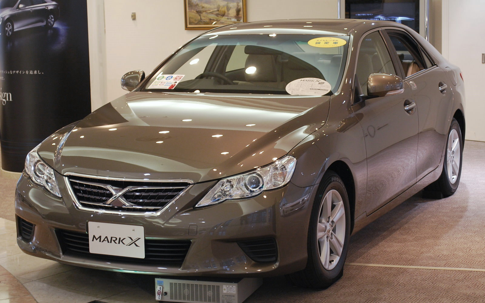 2nd Generation Toyota Mark X Standard type (2009/10 -)